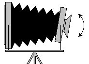 Chris Heald, self made